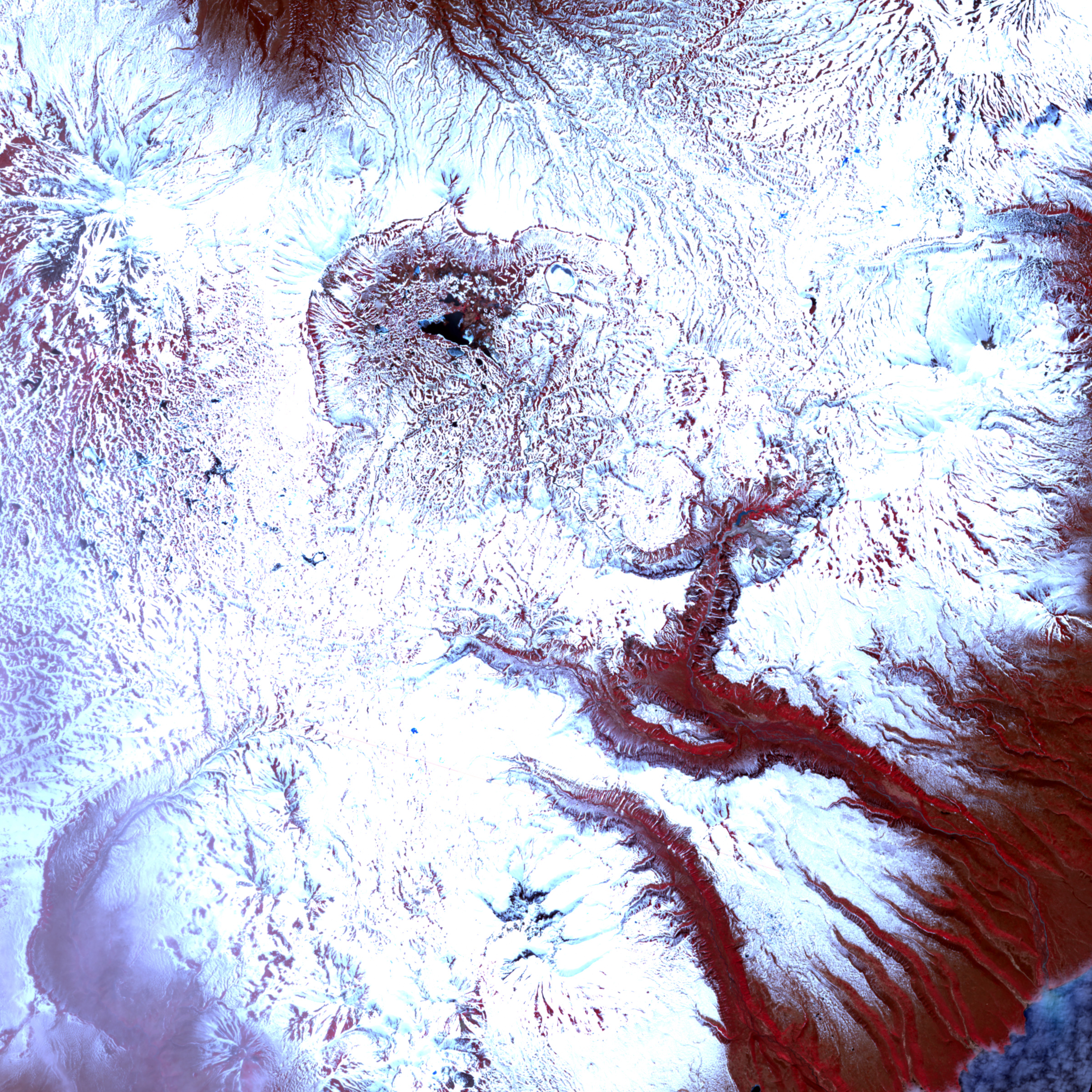 This infra-red-enhanced image shows the valley, the landslide, and a new thermal lake. Even in mid-June, just days from the start of summer, the landscape is generally covered in snow, though the geologically heated valley is relatively snow free. The tree-covered hills are red (the colour of vegetation in this false-colour treatment), providing a strong contrast to the aquamarine water and the grey-brown slide.